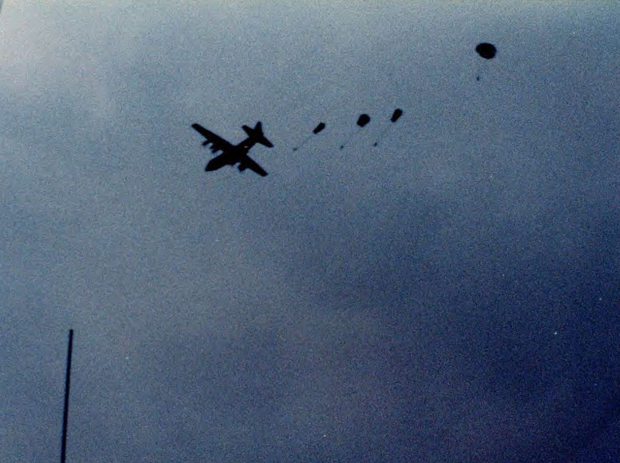 4 SAS troopers parachute down to HMS Cardiff (in to the sea close by) one thousand miles from the TEZ